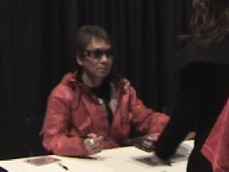 Photo of Japanese director, Takashi Miike, at New York Comic Con 2009.